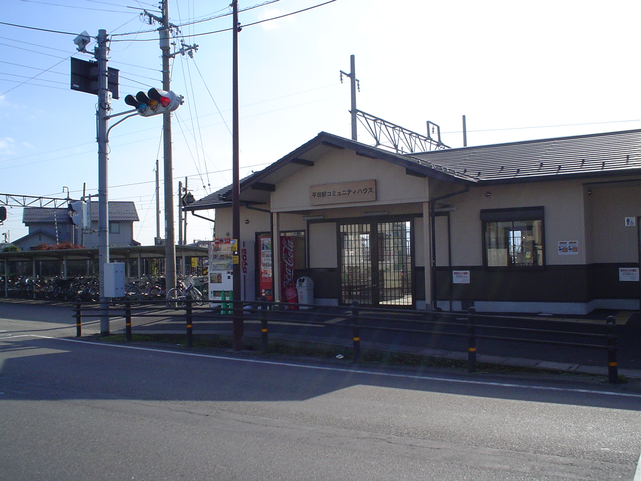 Hirata Station in shiga pref, japan